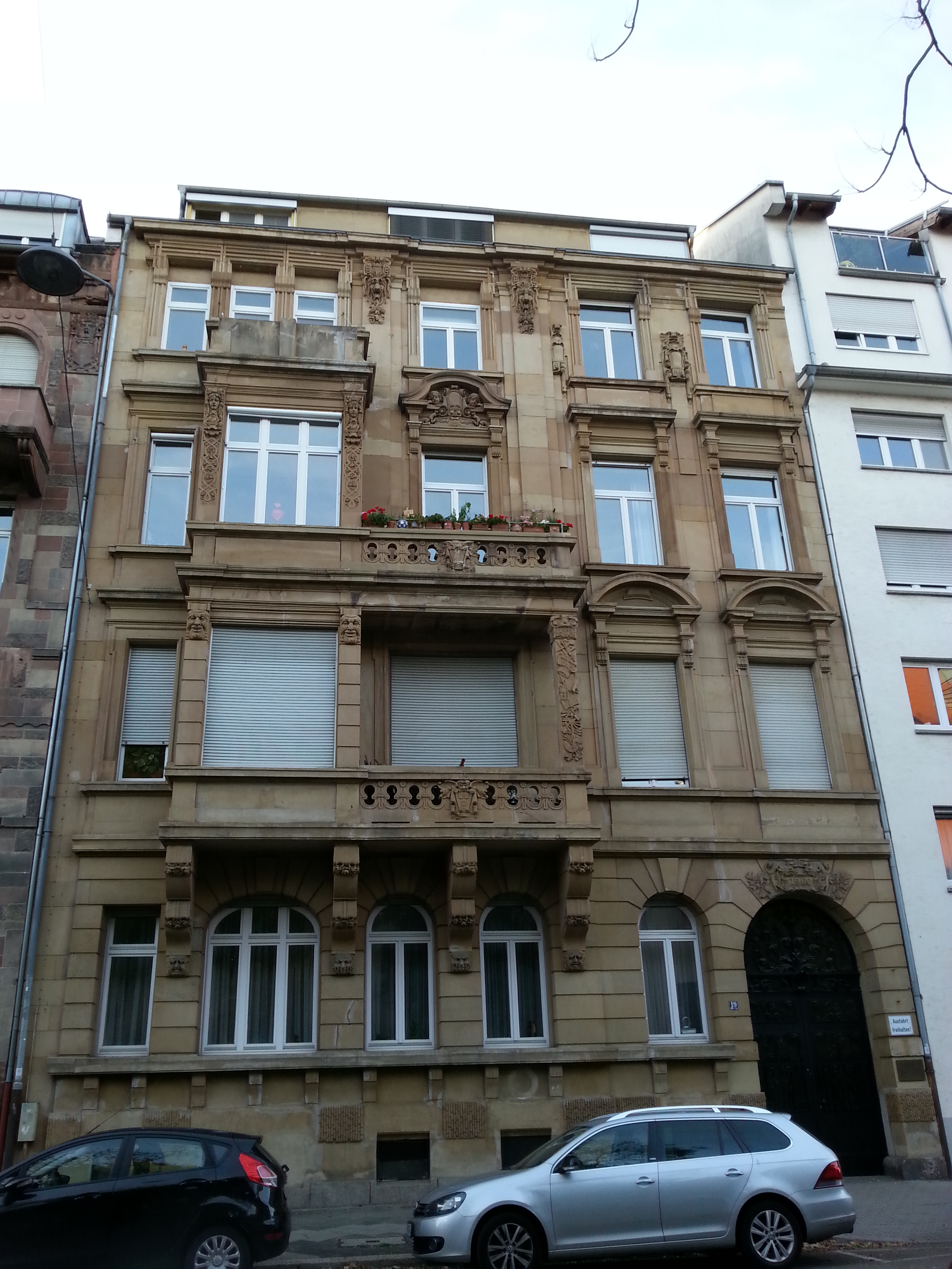 The house in which Nazi architect Albert Speer grew up. The house was designed by his father Albert Friedrich Speer in 1900. Address then: Prinz-Wilhelm-Straße 19.